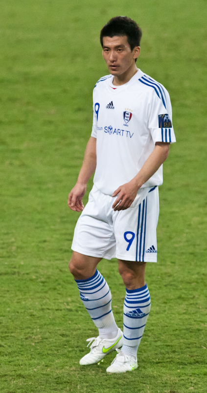 Oh Jang-Eun playing for Suwon Bluewings in the 2011 Asian Champions League against Sydney FC in Sydney, Australia.